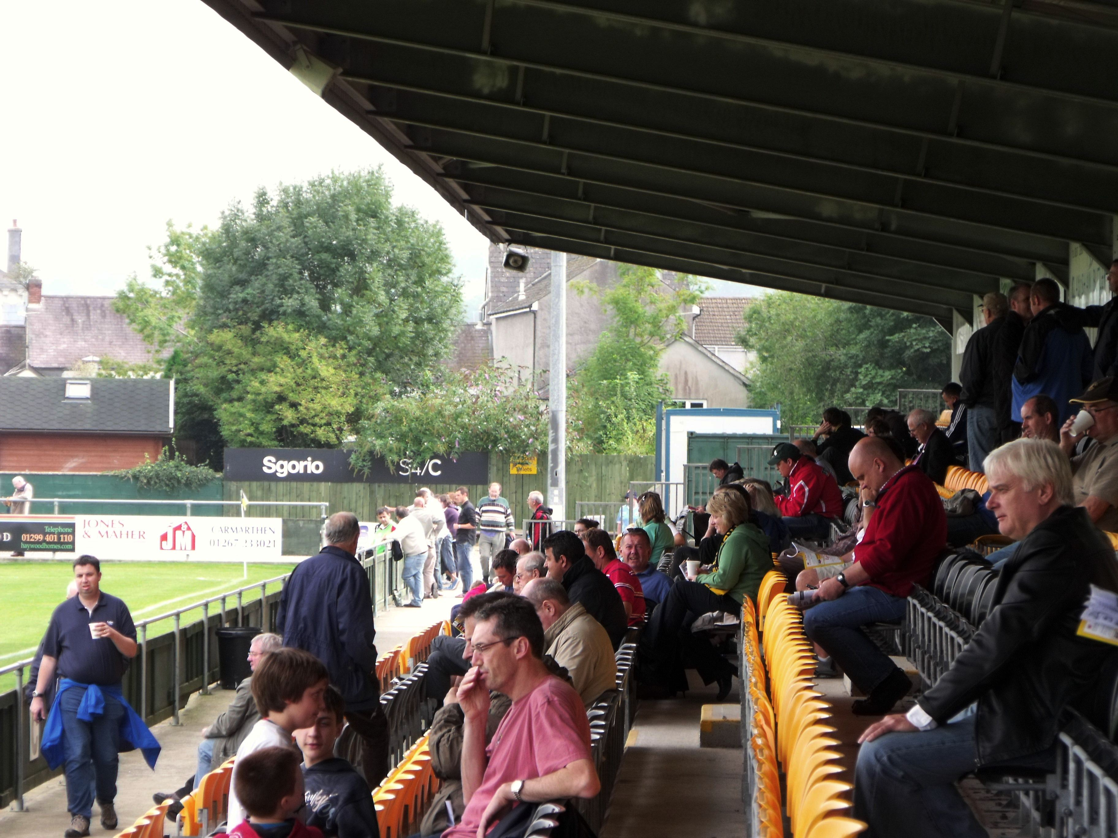 The main stand. 4.09.10